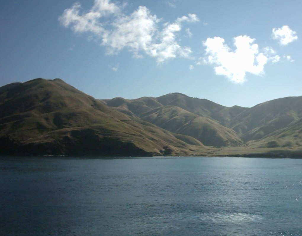 The Marlborough Sounds, New Zealand, as seen from the Wellington-Picton ferry sometime on a bright winter day.